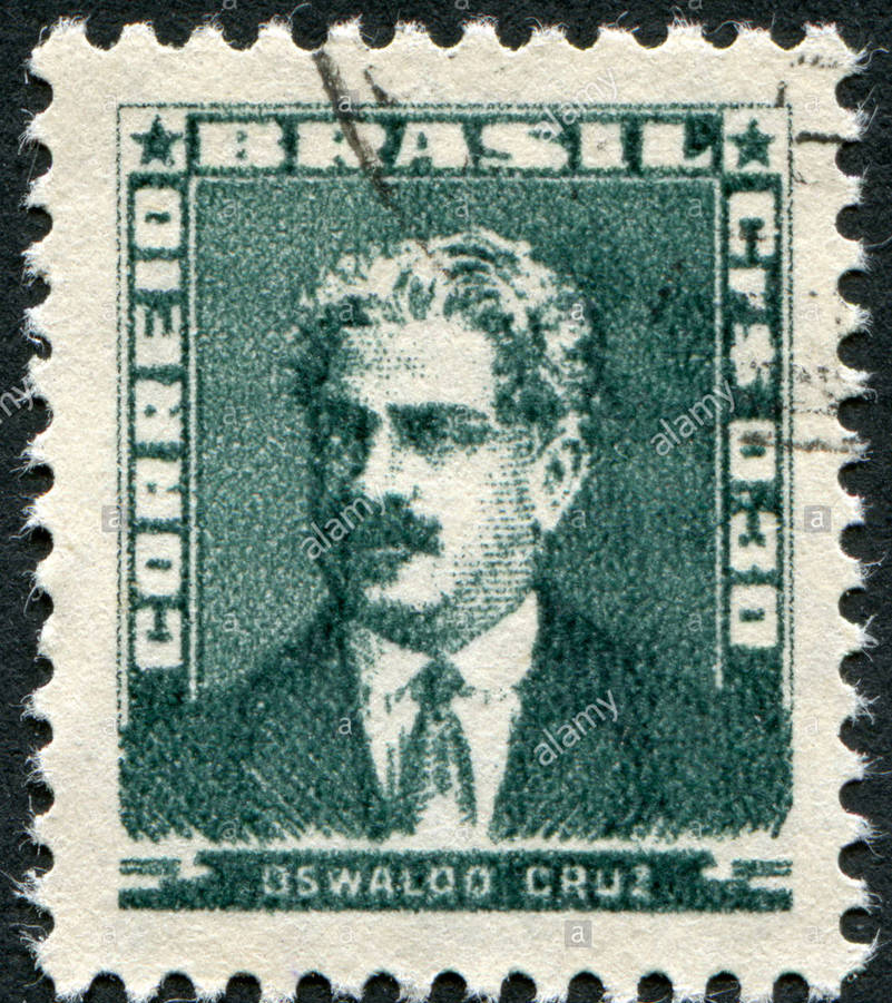 Oswaldo Cruz